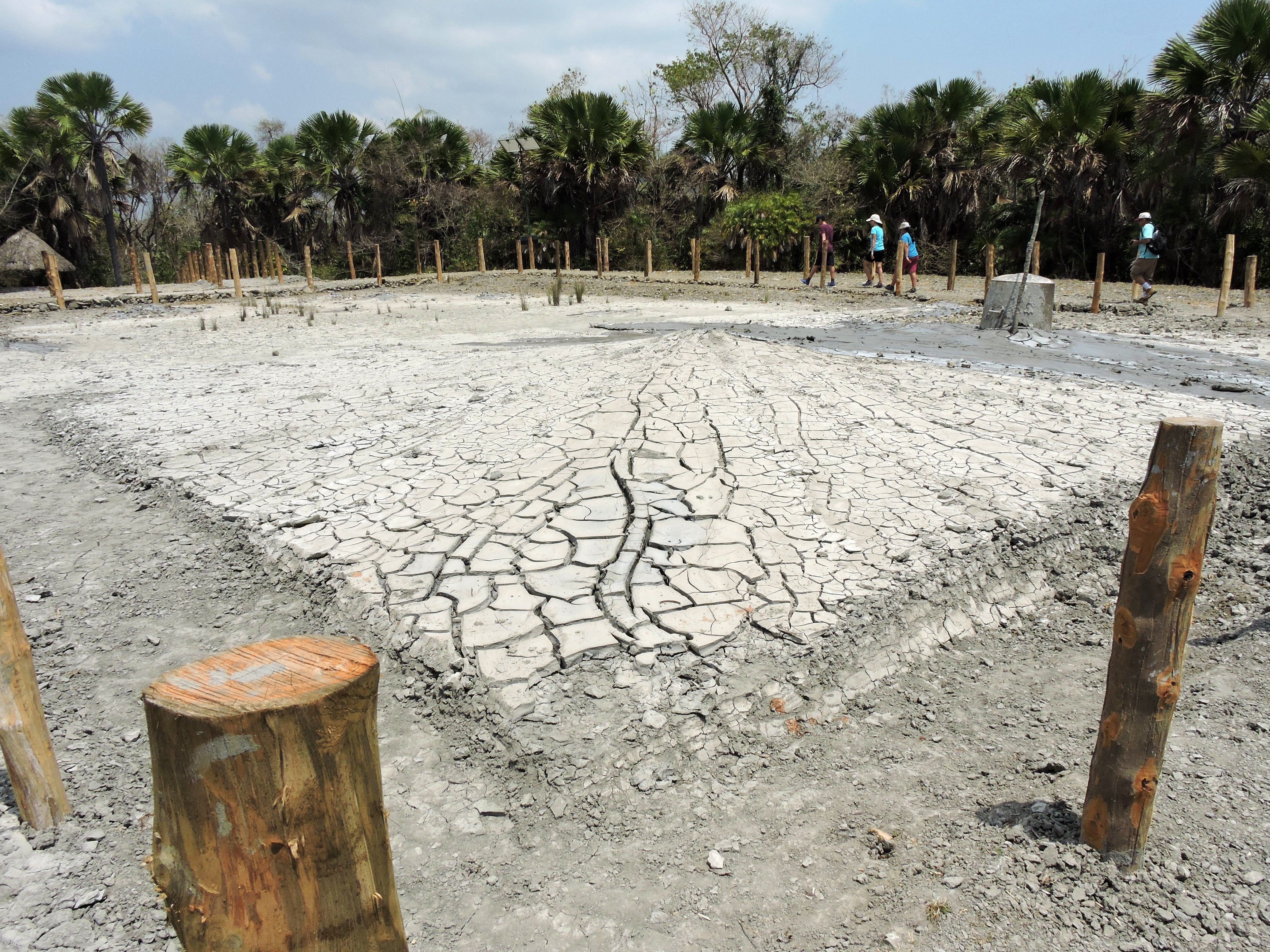 Mud Volcano Baratang Island, Andaman Island, India